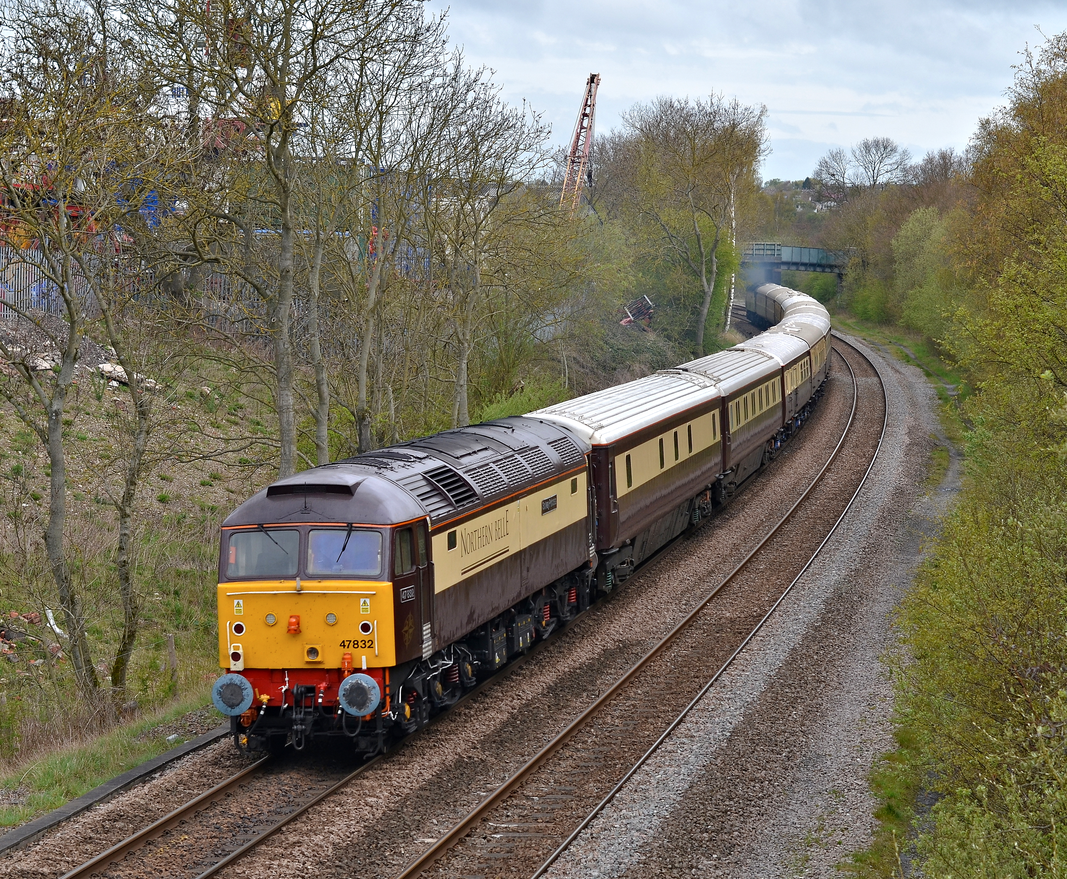 47832 (Solway Princess) on the rear of 1Z22 Cambridge - Harrogate Northern Belle charter